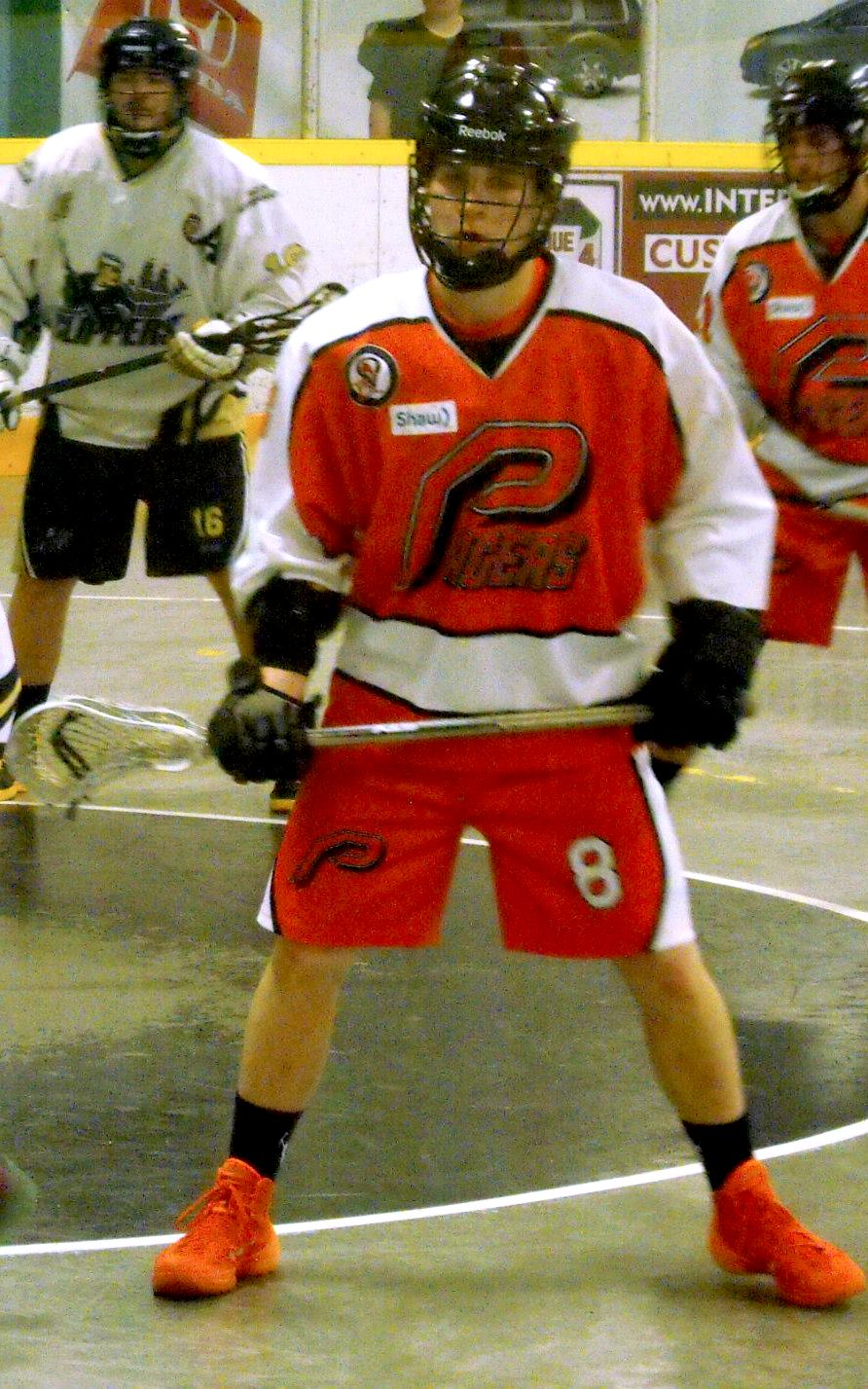 These images of Ontario Junior B Lacrosse Action action during the 2014 season are taken by Devan Mighton.